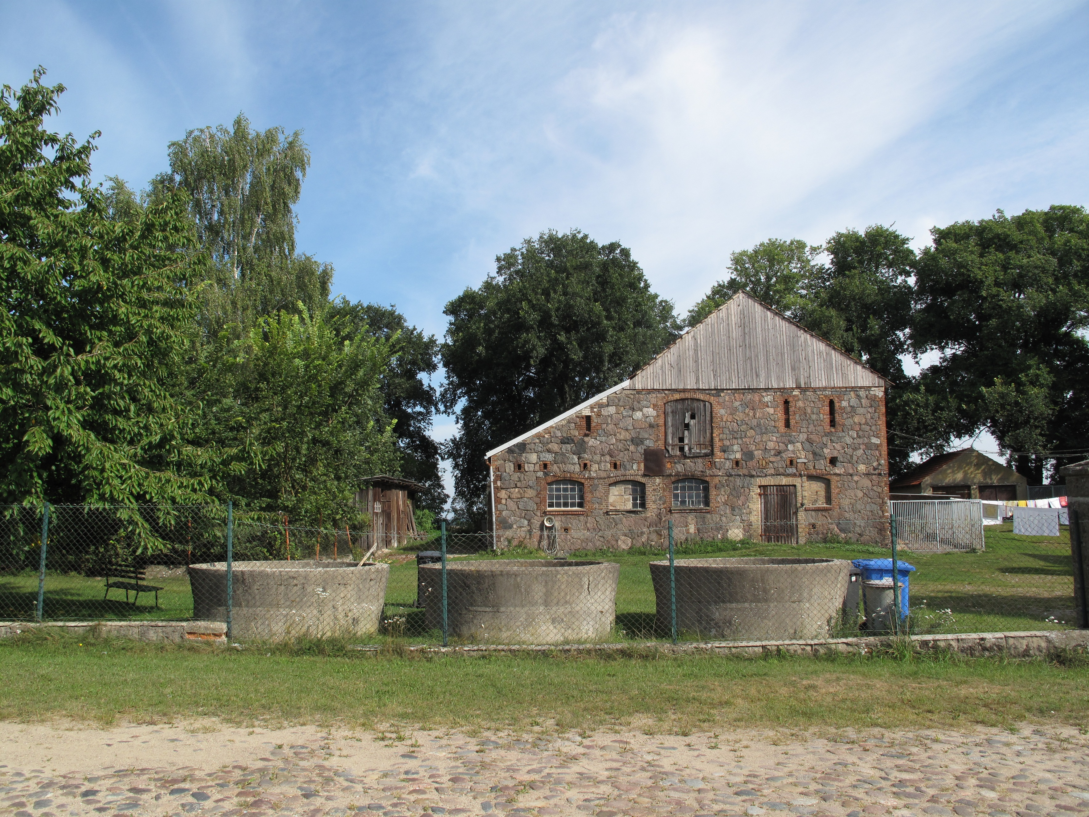 Ernsthof is a hamlet of Grunow, a village of the municipality Oberbarnim in the District Märkisch-Oderland, Brandenburg, Germany. Ernsthof was founded in 1833 as folwark of Grunow.